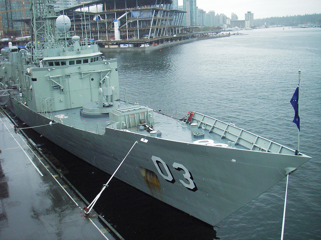 HMAS Sydney in 2007.